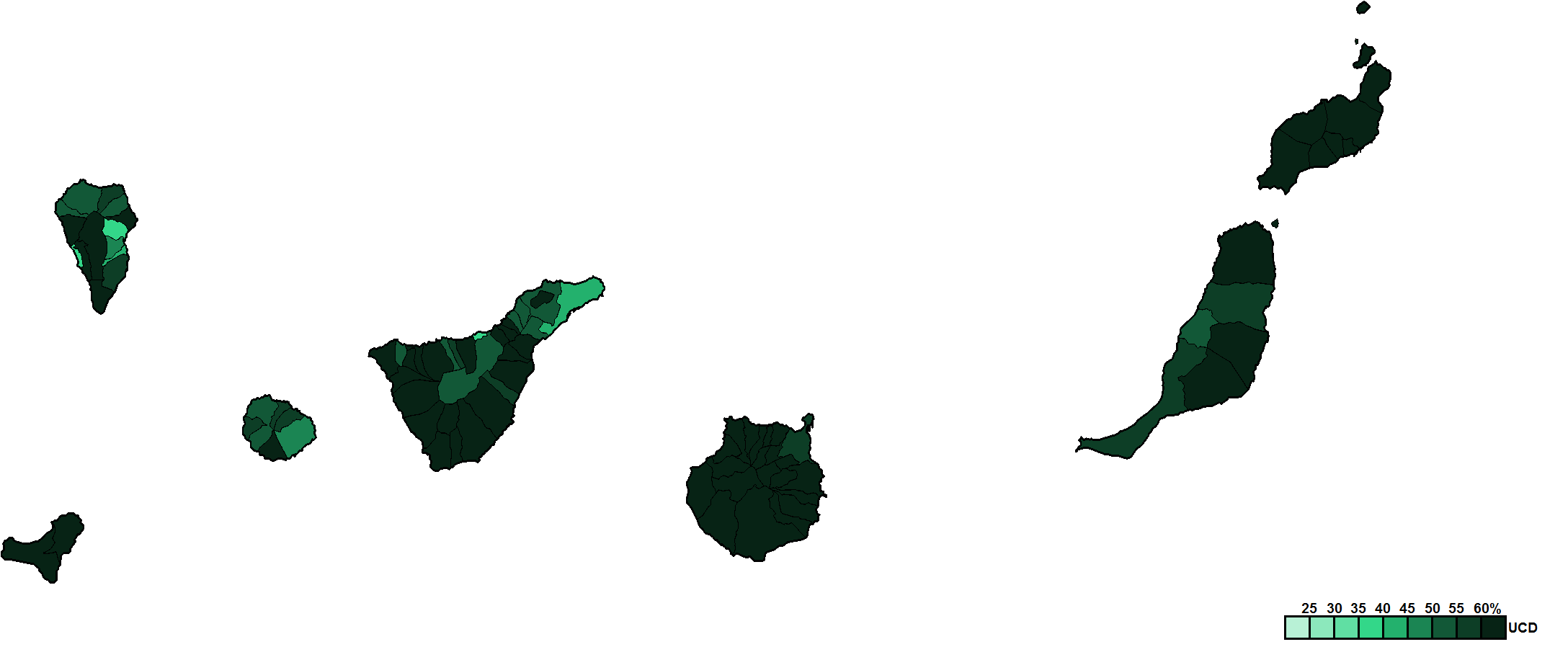 Most-voted party in Canary Islands municipalities, showing vote share obtained, in the Spanish general election, 1977.